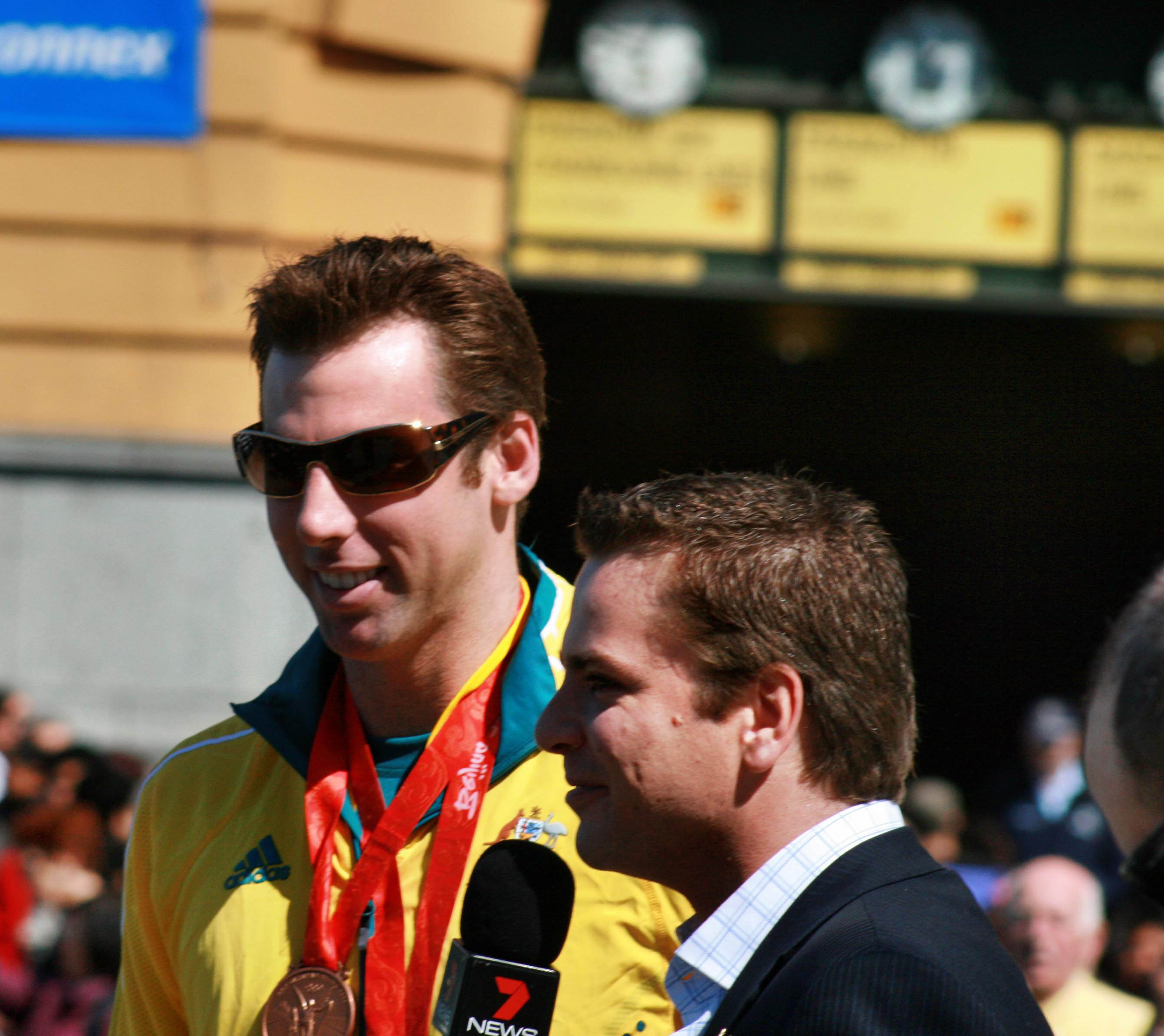 Australian swimmer Grant Hacket with Channel 7 reporter Dylan Howard at the Melbourne homecoming parade for 2008 Olympic Team.